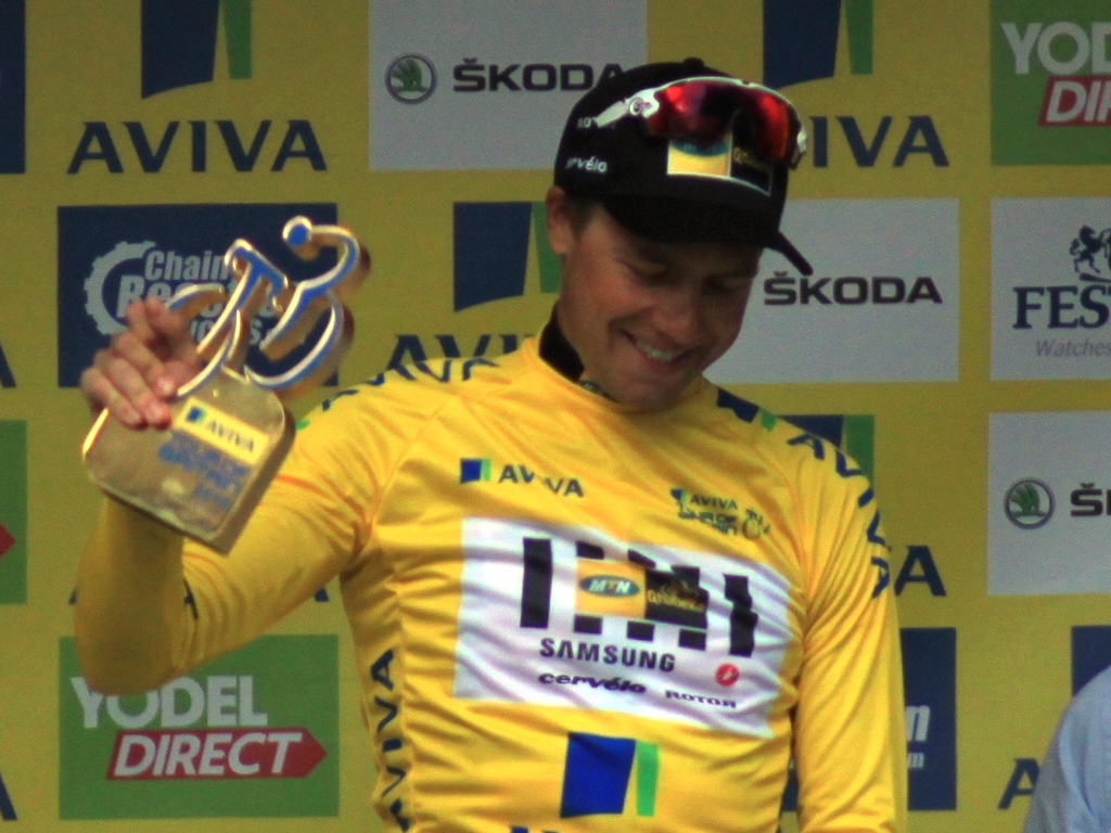 Edvald Boasson Hagen receives the trophy and yellow jersey for leading the General Classification of the 2015 Tour of Britain.